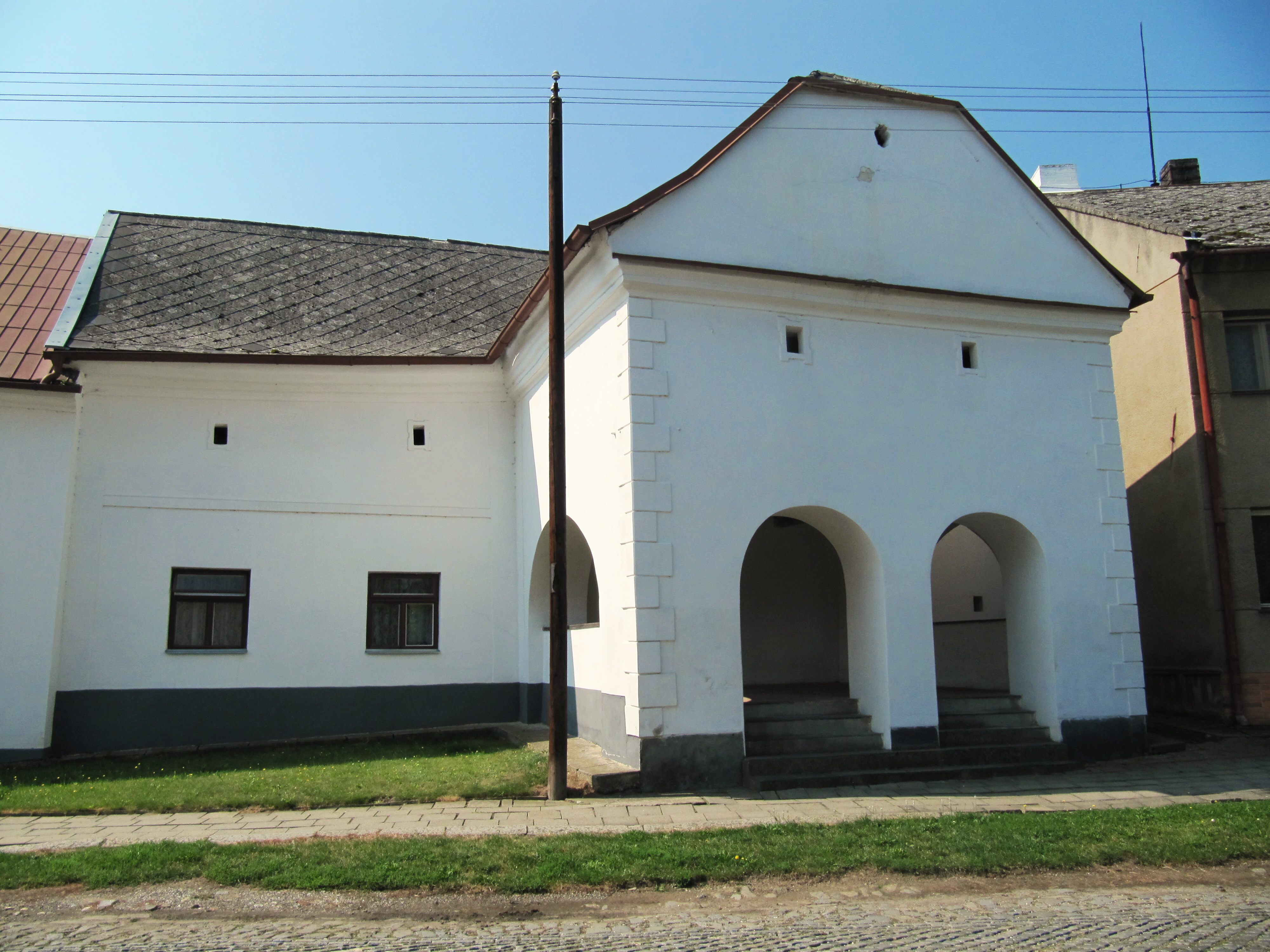 Příkazy in Olomouc District, Czech Republic. Rural homestead No. 50 with a typical porch of Haná.